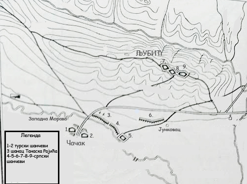 The map of battle of Ljubic 6.June 1815. as part of Second Serbian uprising